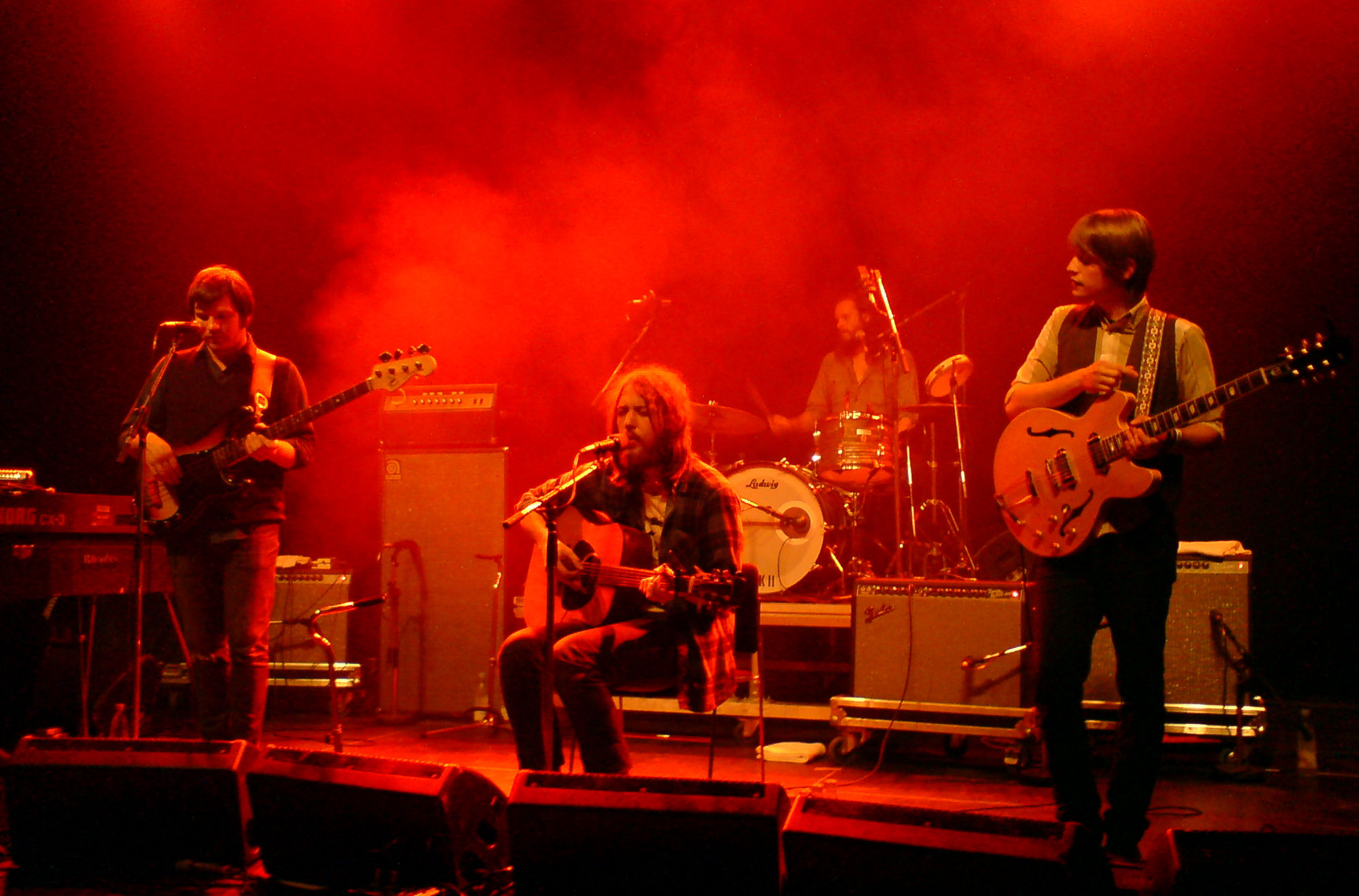 Fleet Foxes performing live in Copenhagen, Denmark on August 10th, 2008.